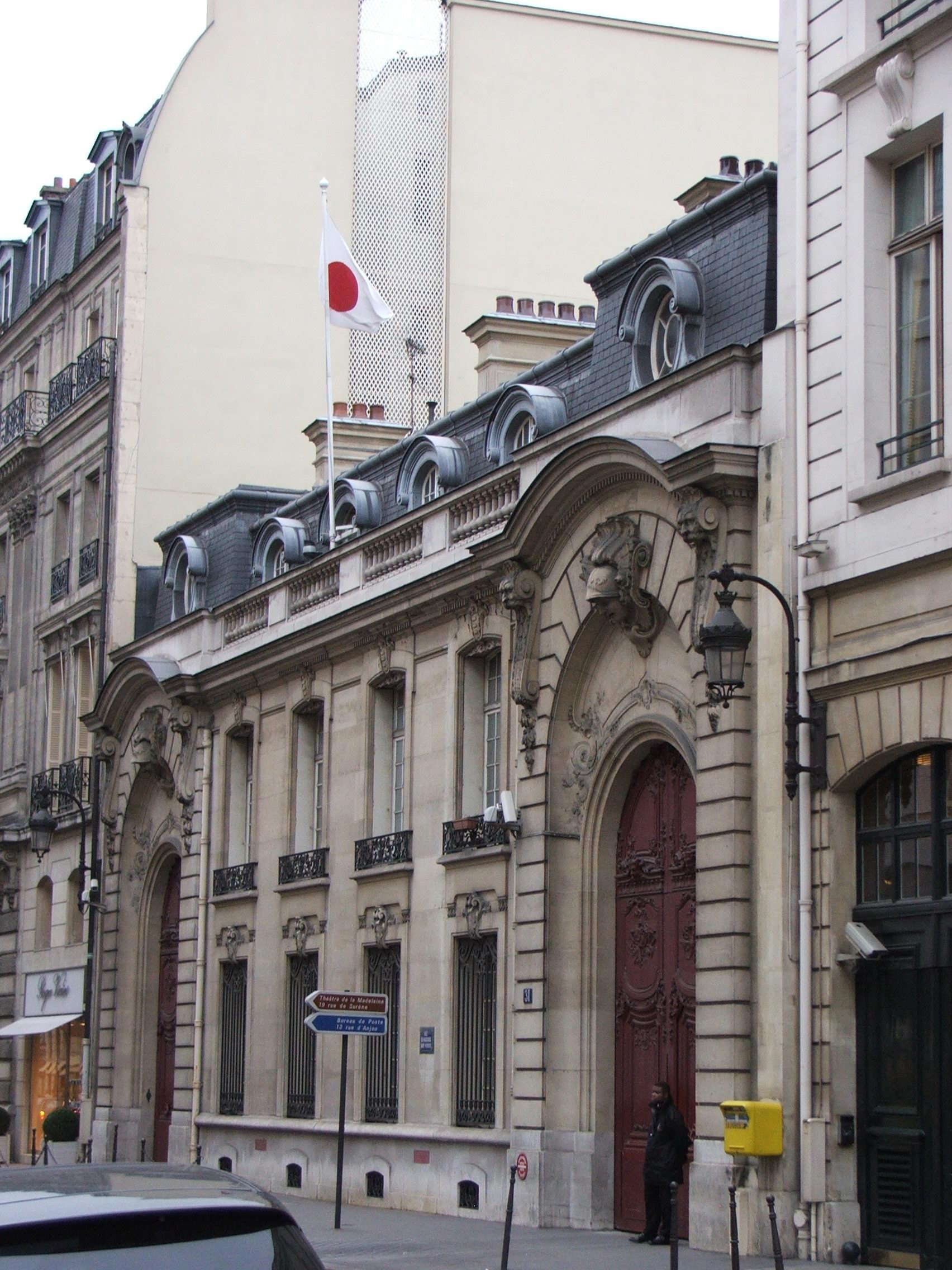 Hôtel Pillet-Will, former hôtel Marbeuf, 31 rue du Faubourg-Saint-Honoré, 8th arrondissement de Paris, current residence of the Japanese Ambassador in France. The embassy itself is on Avenue Hoche.